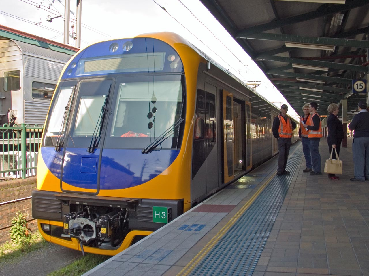 OSCAR H3 at Sydney Central's platform 15, amidst its crew and admirers.